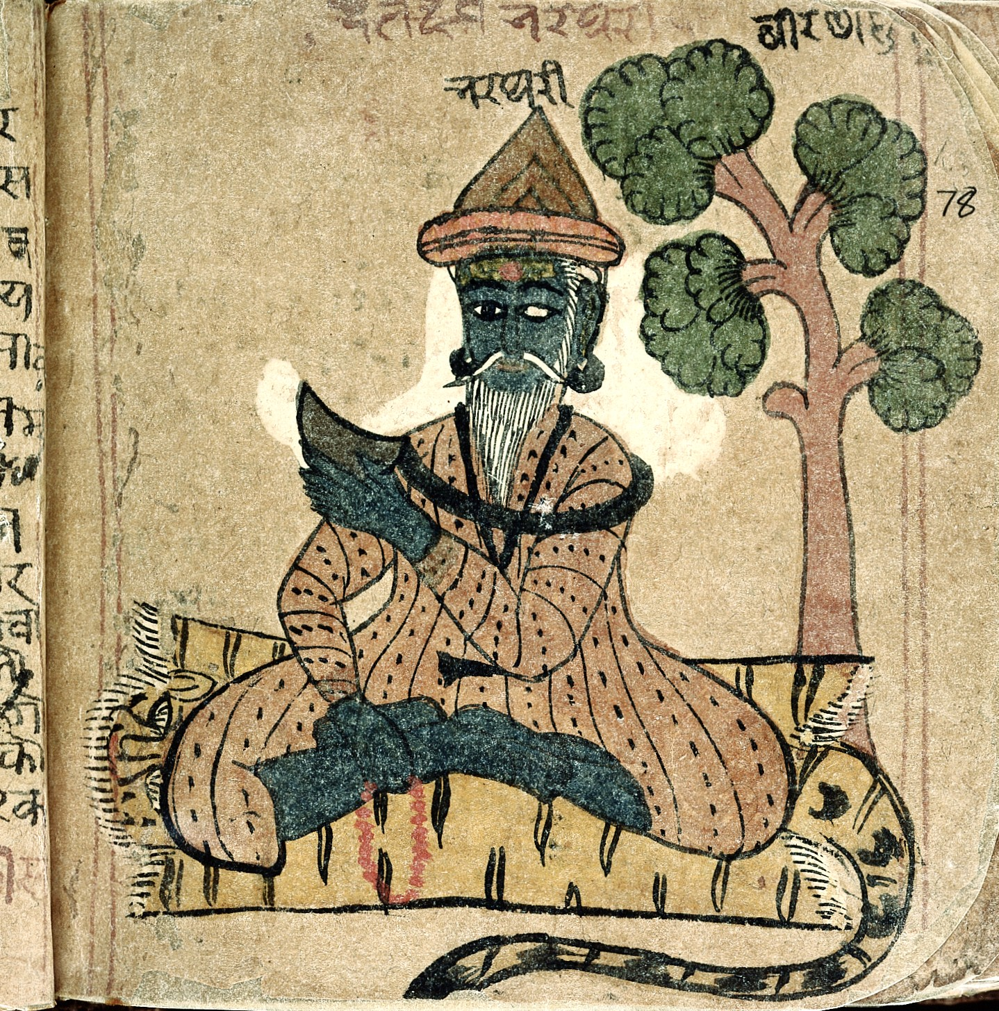 Various authors, Composite manuscript, 29 ink and gouache illustrations. Bharathari Asian Collection